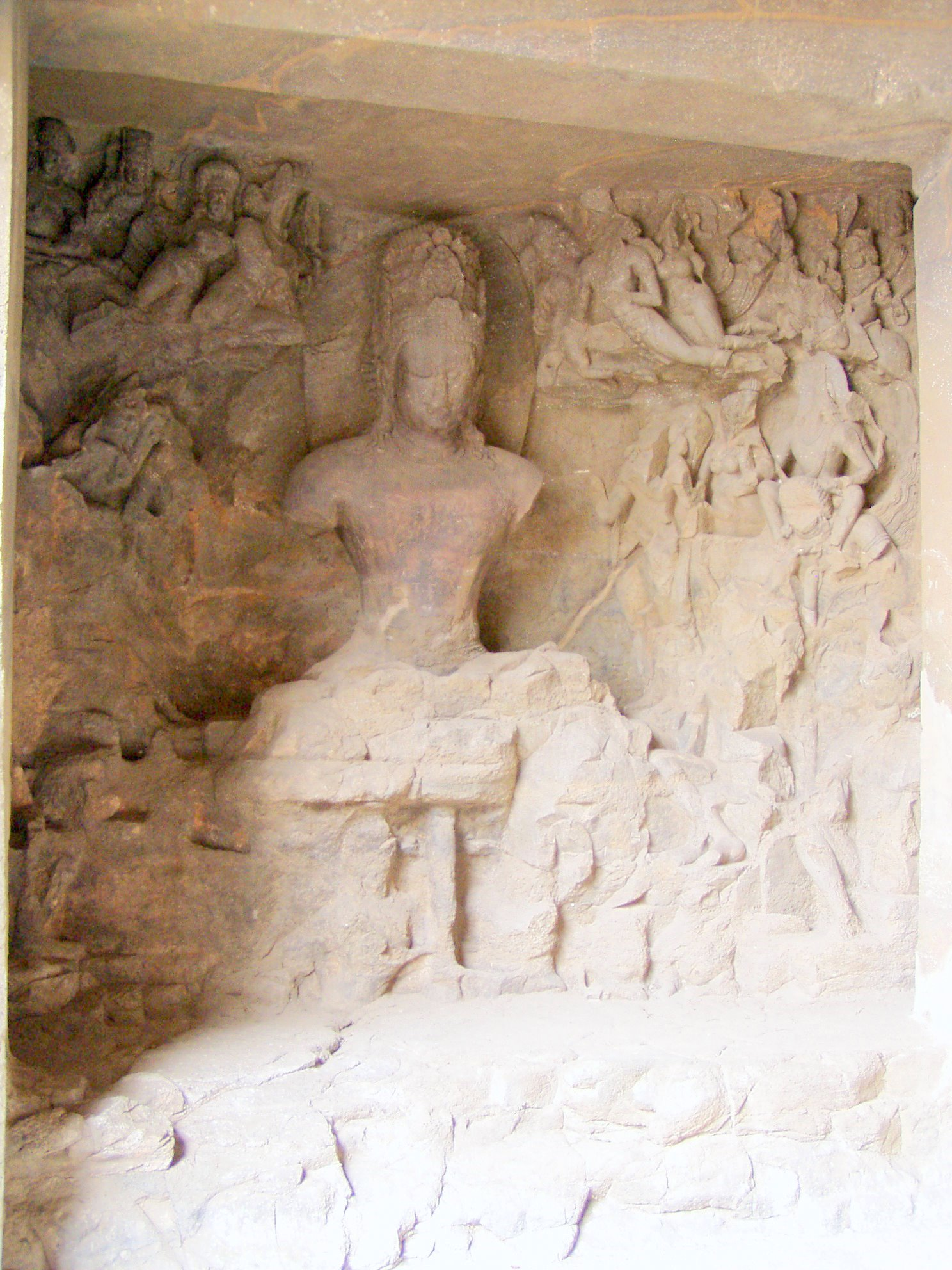 Panel containing Siva Yogisvara (Lord of Yogis) in Elephanta caves. Siva is sitting on a lotus stalk of which is held by two Nagas.